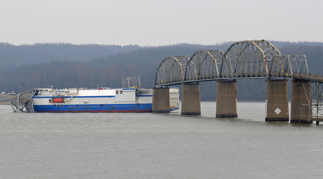 Pictured is the M/V Delta Mariner after its collision with the Eggner Ferry Bridge. The vessel struck the bridge, which spans Kentucky Lake in Marshall County, KY, on 26 January 2012, causing a span to collapse onto the bow of the ship.